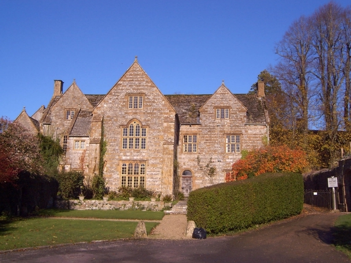 Cerne Abbas manor house, Dorset. Taken by Joe D, 2004-11-04.